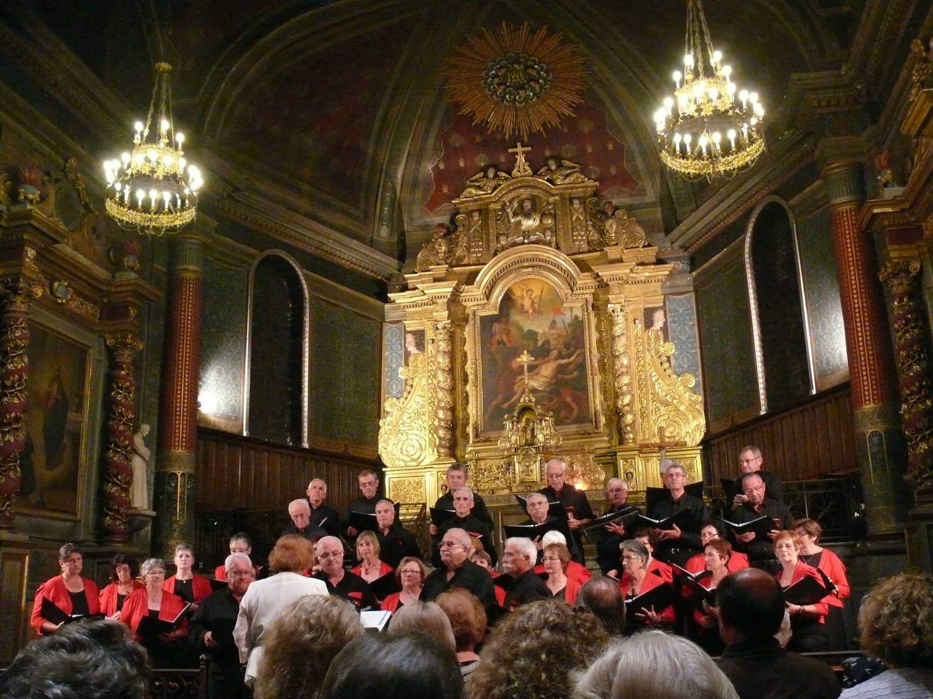 Saint-Laurent's church of Cambo-les-Bains (Pyrénées-Atlantiques, Aquitaine, France).